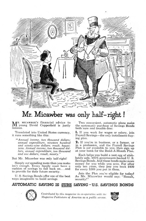 Rulah #19, page 35 October 1948